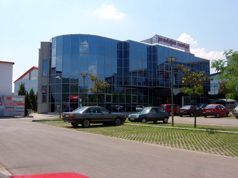 The Mepas center in Široki Brijeg.